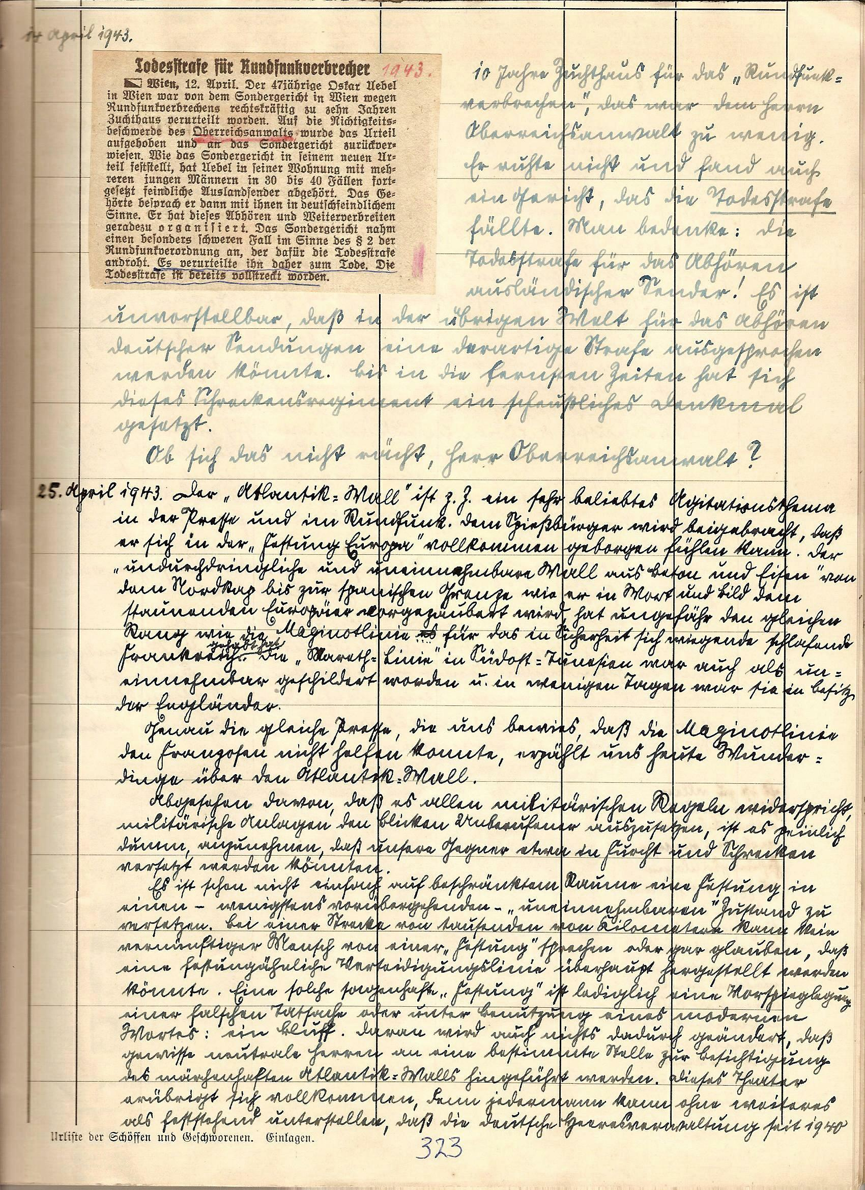 Friedrich Kellner diary entry of April 14, 1943, including newspaper clipping about the death penalty being given for listening to a foreign broadcast on the radio.